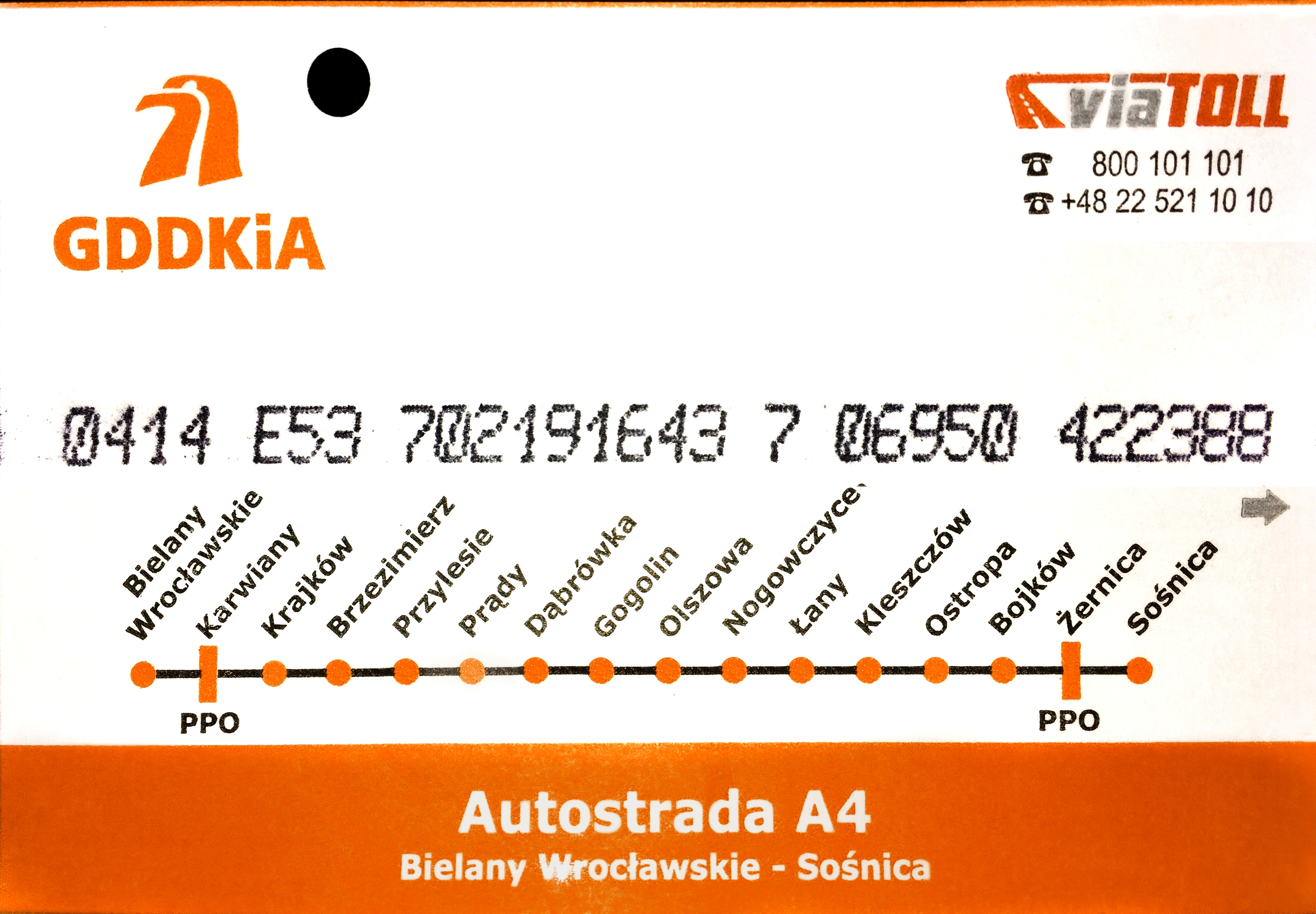 ViaToll toll ticket for a car from GDDKiA; opłaty drogowe firmowy GDDKiA dla samochodów; near Breslau/Wrocław